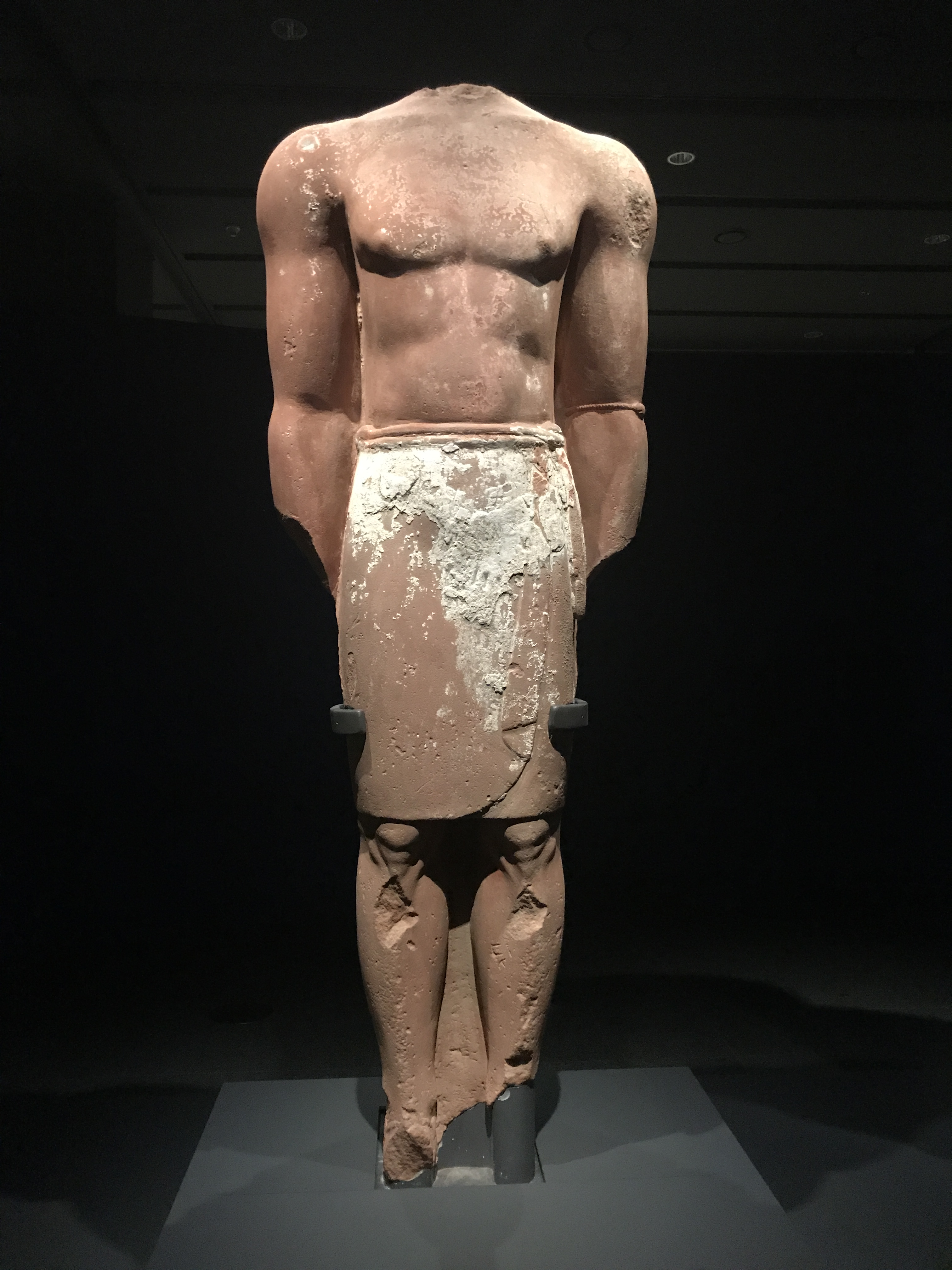 Roads of Arabia: Archaeological Treasures of Saudi Arabia exhibition at National Museum of Korea.